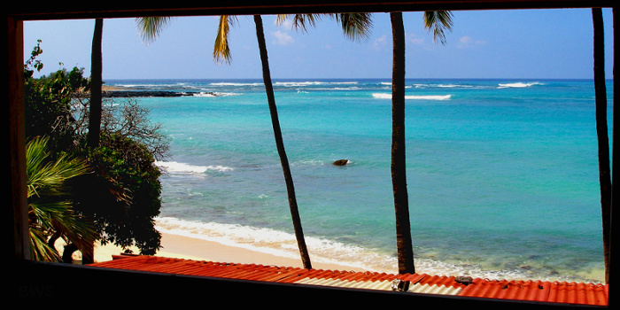 Hawaii, USA, Kekaha Kai State Park, Mahai'ula Beach thru the window